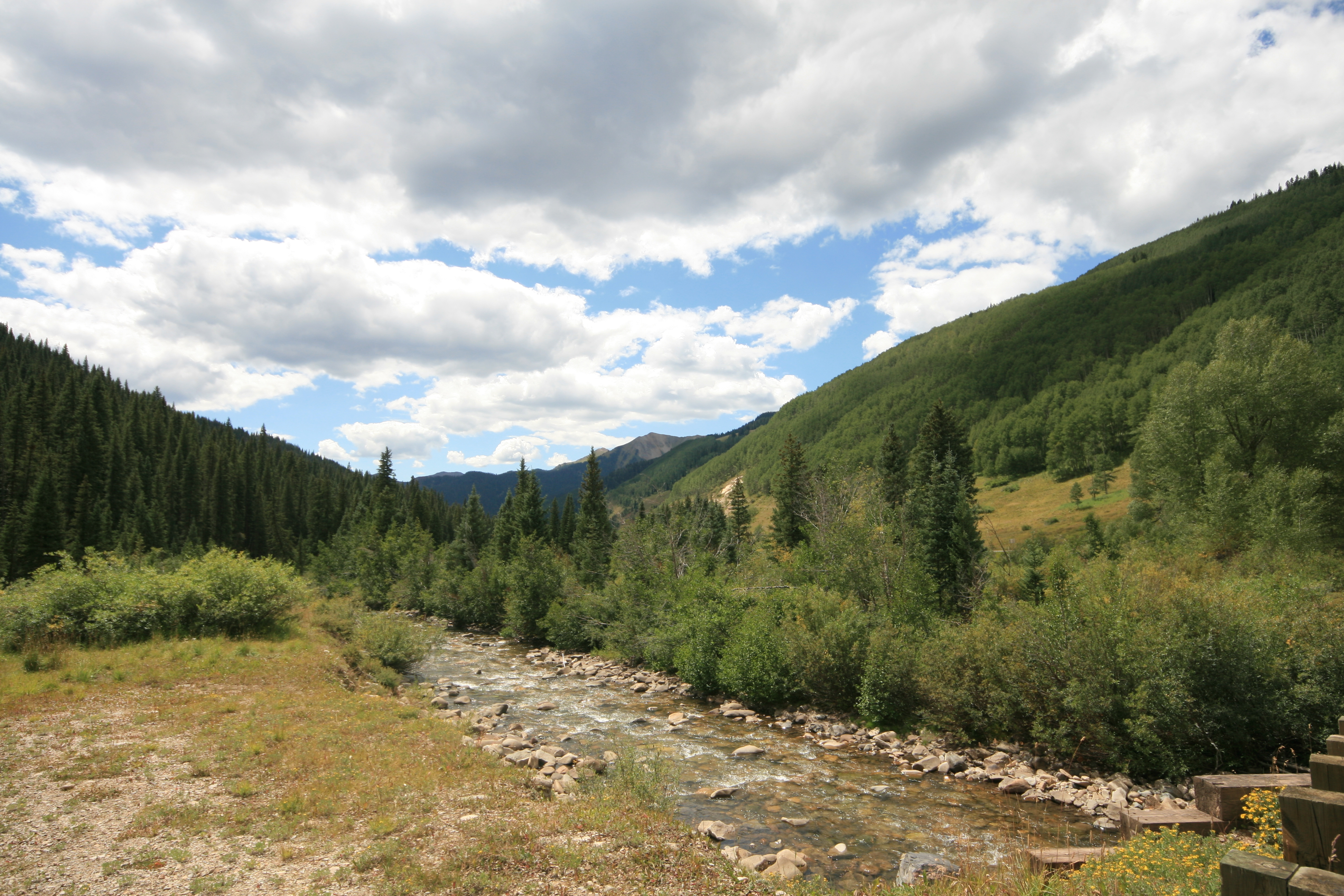 Delores River..